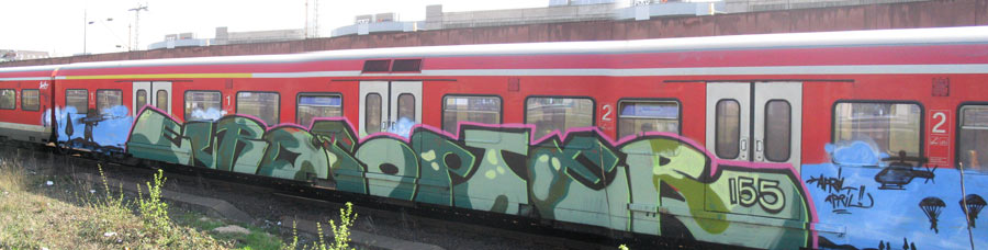 graffiti done april 2005 after the news that the german "border patrol" (bundesgrenzschutz, is now basically in charge for train lines and stations) was using helicopters to hunt graffiti sprayers in the middle of the night in berlin.